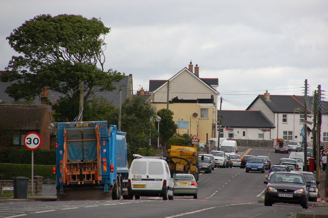 Millisle - the main street. Millisle is a village, on the coast between Donaghadee and Ballywalter, well known for its caravan sites. In line with most places within commuting distance of Belfast it is seeing the building of many new houses. Its main street consists of a few churches, convenience shops, bars and chip shops. This is the view towards Donaghadee.